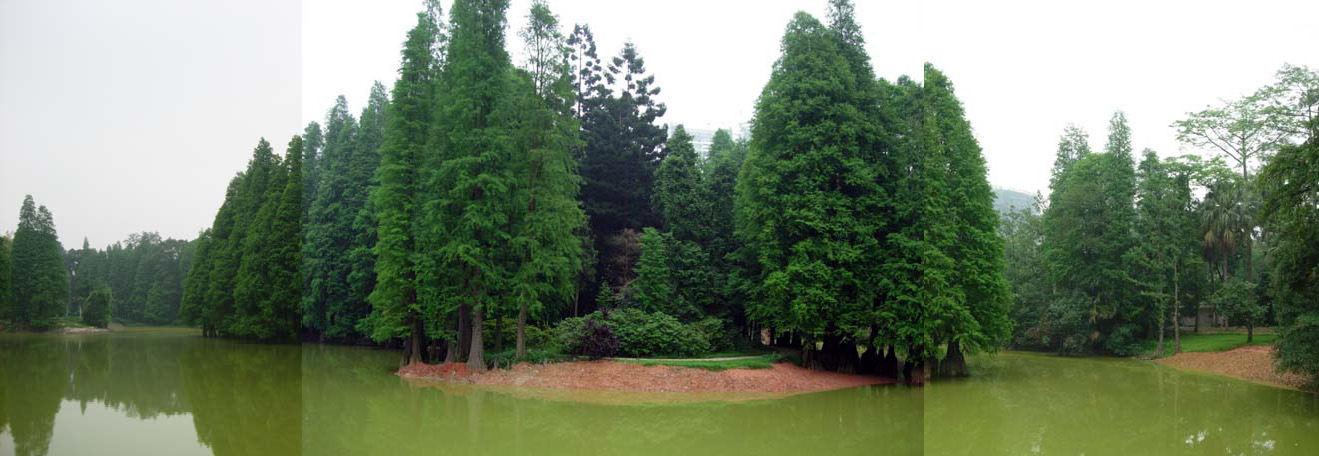 Panoramic qilin in dragon hollow, in Tianhe district, Guangzhou